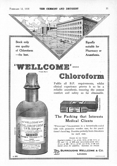 'Wellcome Brand Chloroform': an advertisement for 'Wellcome Brand Chloroform' Photograph 1916 From: The Chemist and Druggist. Published: February 12 1916 Page 31